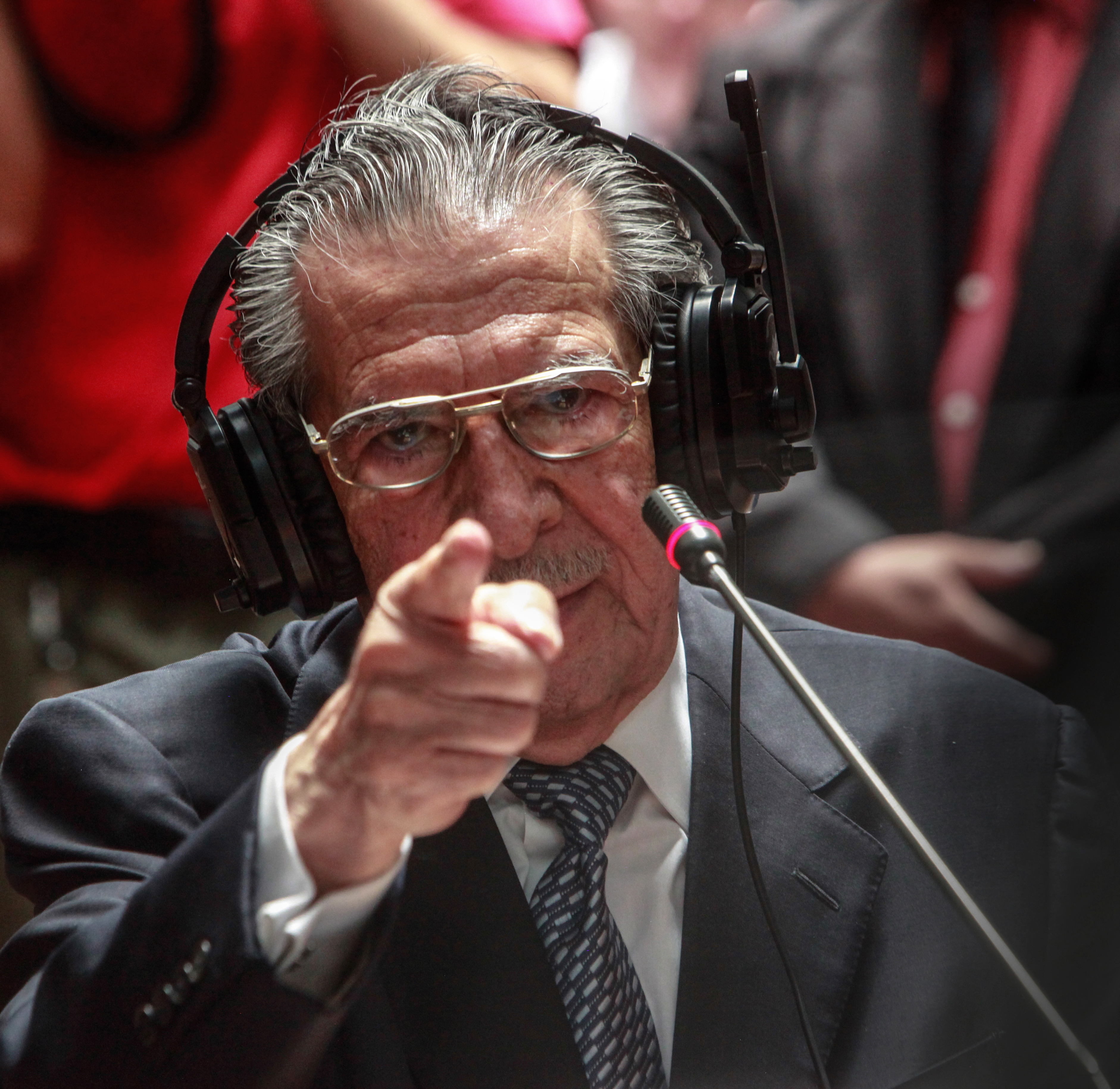 Ex General Efrain Rios Montt testifying during the trial. He declared himself innocent: “I am innocent. I never had the intention of destroying any national ethnic group. My role as head of State was specifically to bring the nation back on track, after it had gone astray.” Photo: Elena Hermosa.